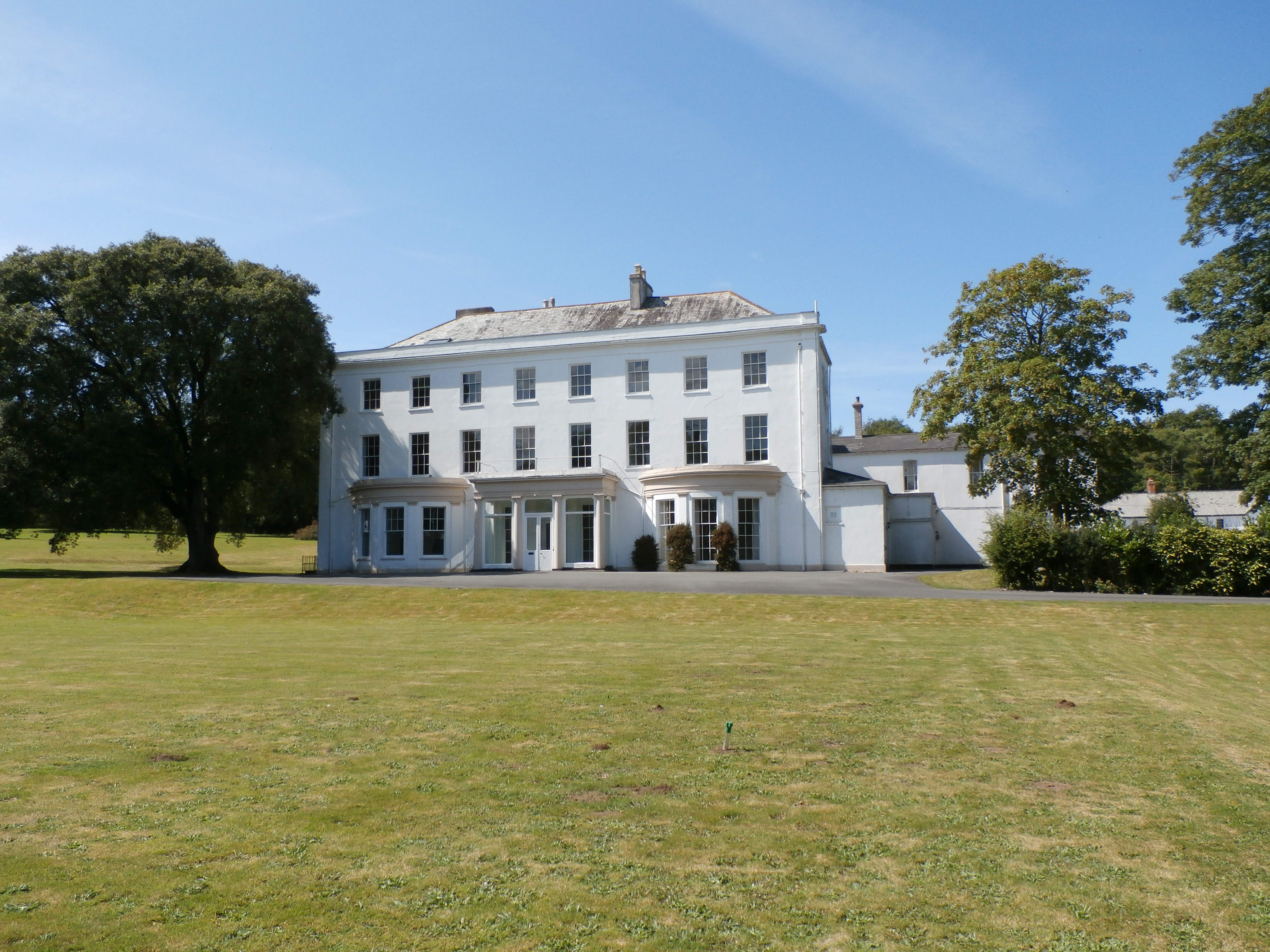 Moreton House, Abbotsham Road, Bideford, Devon. Built c.1821 by Lewis William Buck (1784-1858), MP